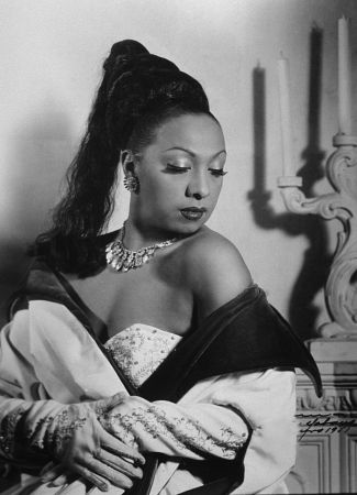 Photo by Rudolf Suroch of Josephine Baker. Havana, Cuba. 1950